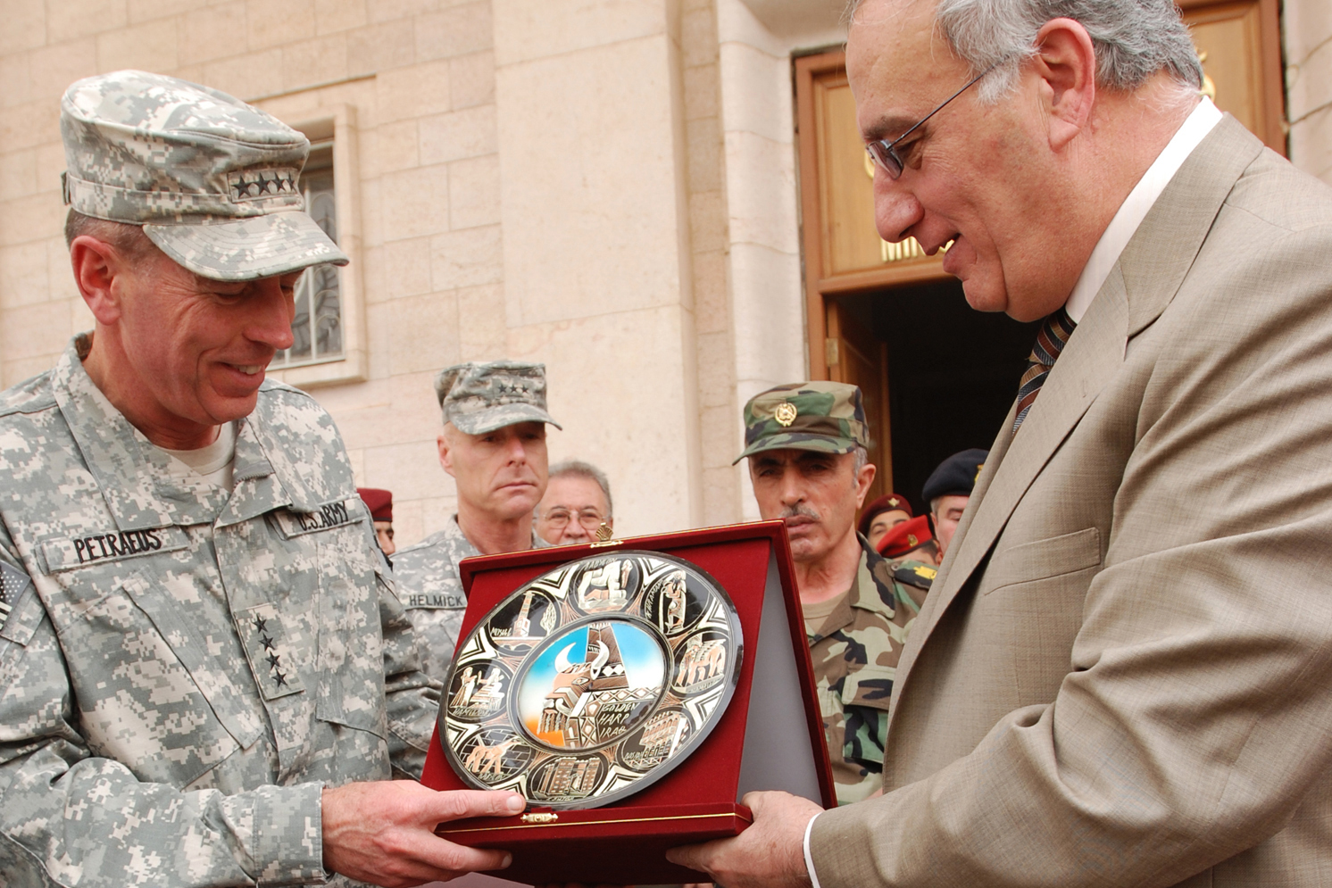 Iraq Defense Minister Abdul Qadir presents a gift to U.S. Army General David Petraeus during a farewell ceremony in Baghdad on September 15, 2008. Petraeus turned over command of Multi-National Forces - Iraq to Army General Raymond Odierno on September 16. Petraeus has served in three command positions in Iraq since 2003.